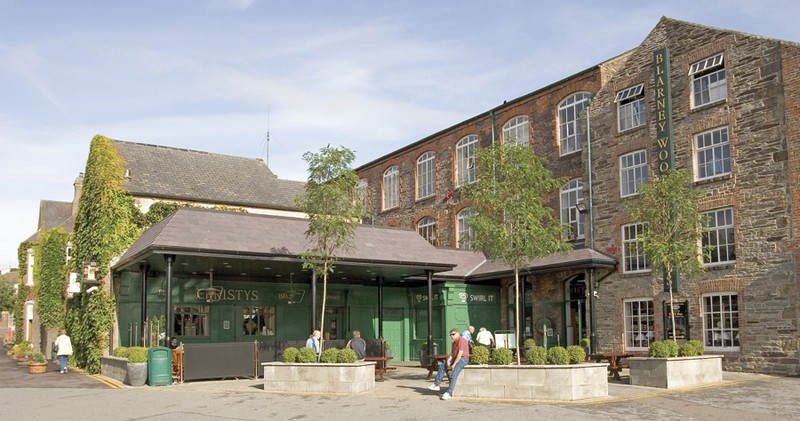 Low angle shot of Blarney Woollen Mills